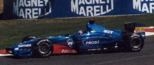 Jean Alesi driving the Prost AP04